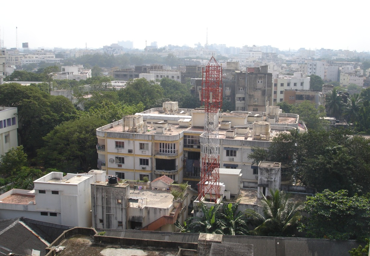 Chennai.in Ethiraj Womens College